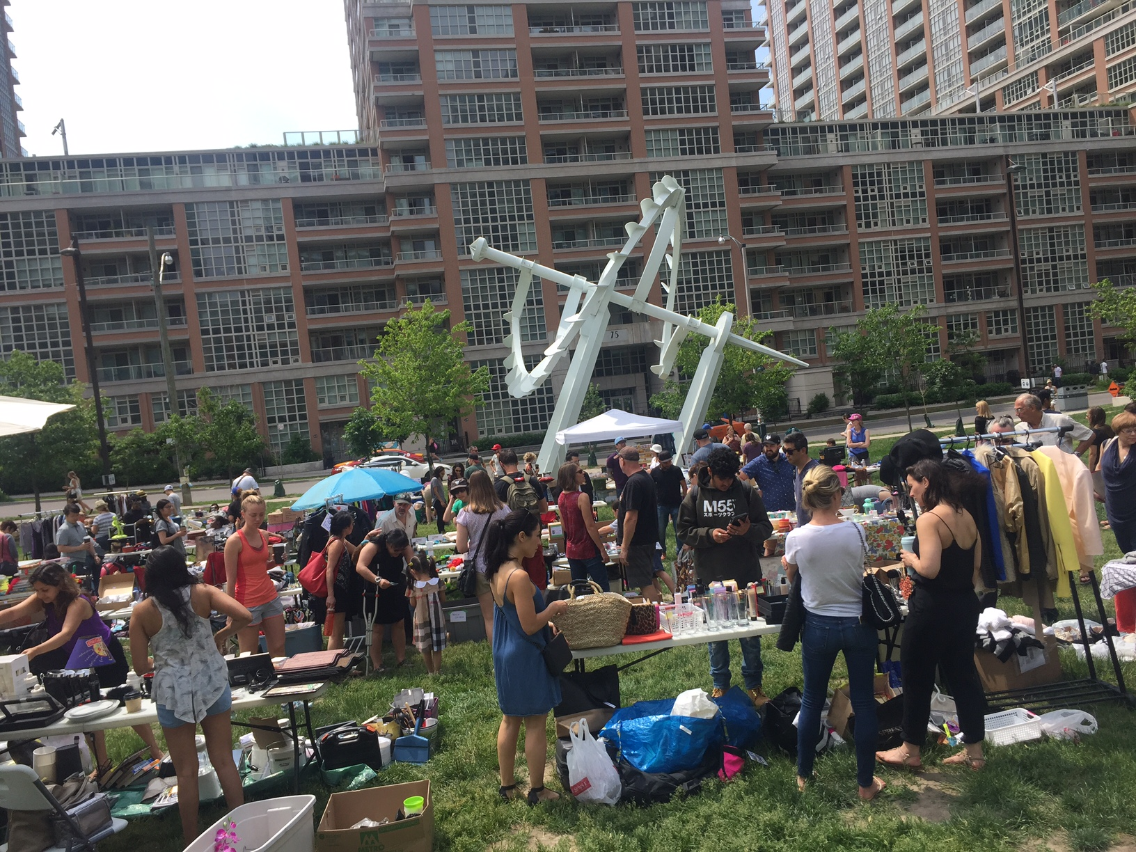 Liberate Your Locker in Liberty Village Park